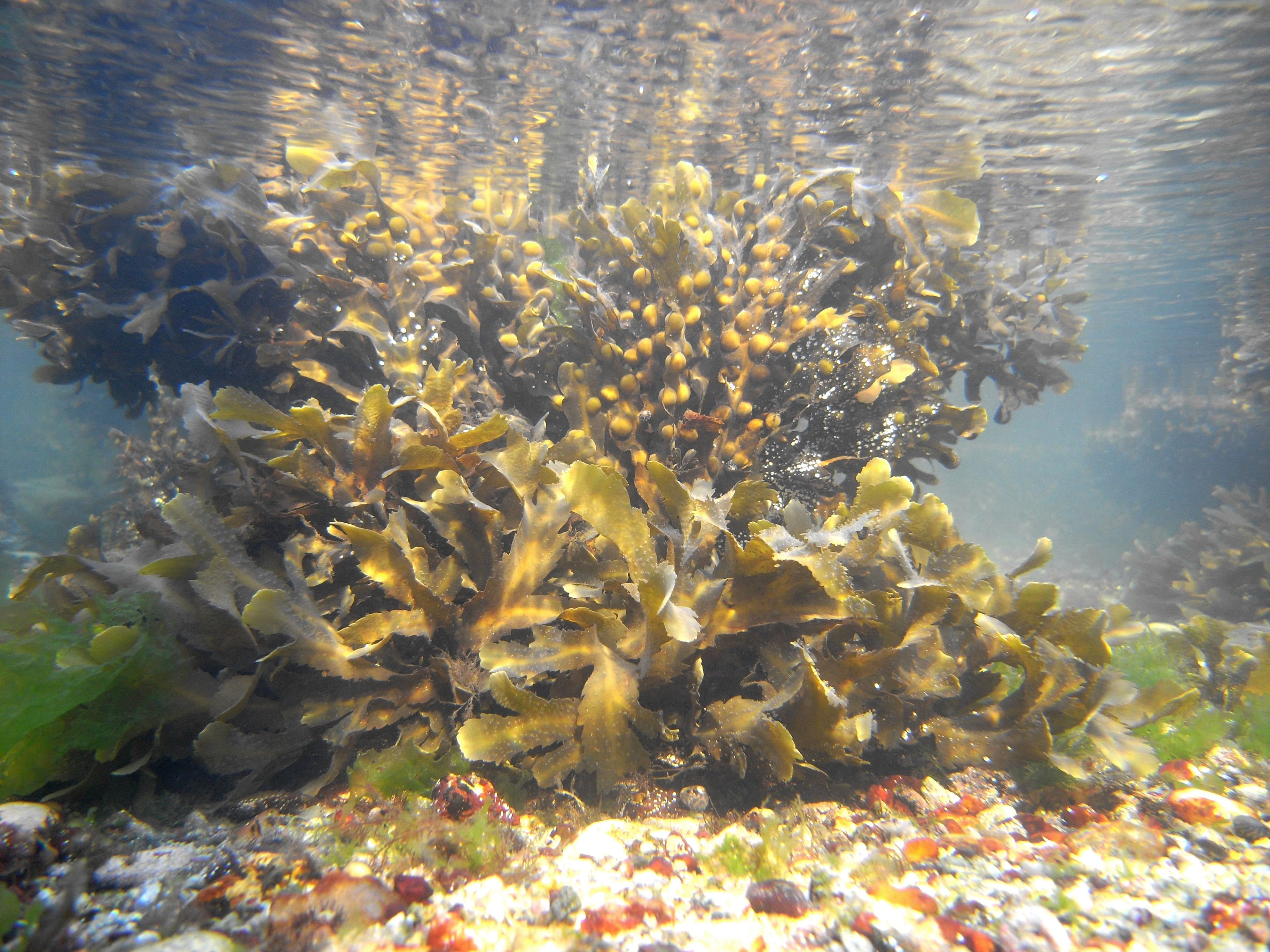 Two species of Fucus under water in the intertidal zone